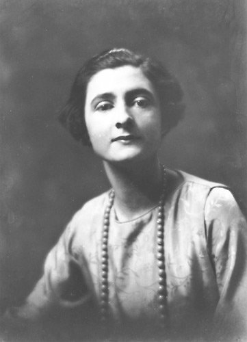 Arnold Genthe (1869-1942)/LOC agc.7a08459. Mercedes Hede de Acosta, 1919 or 1920